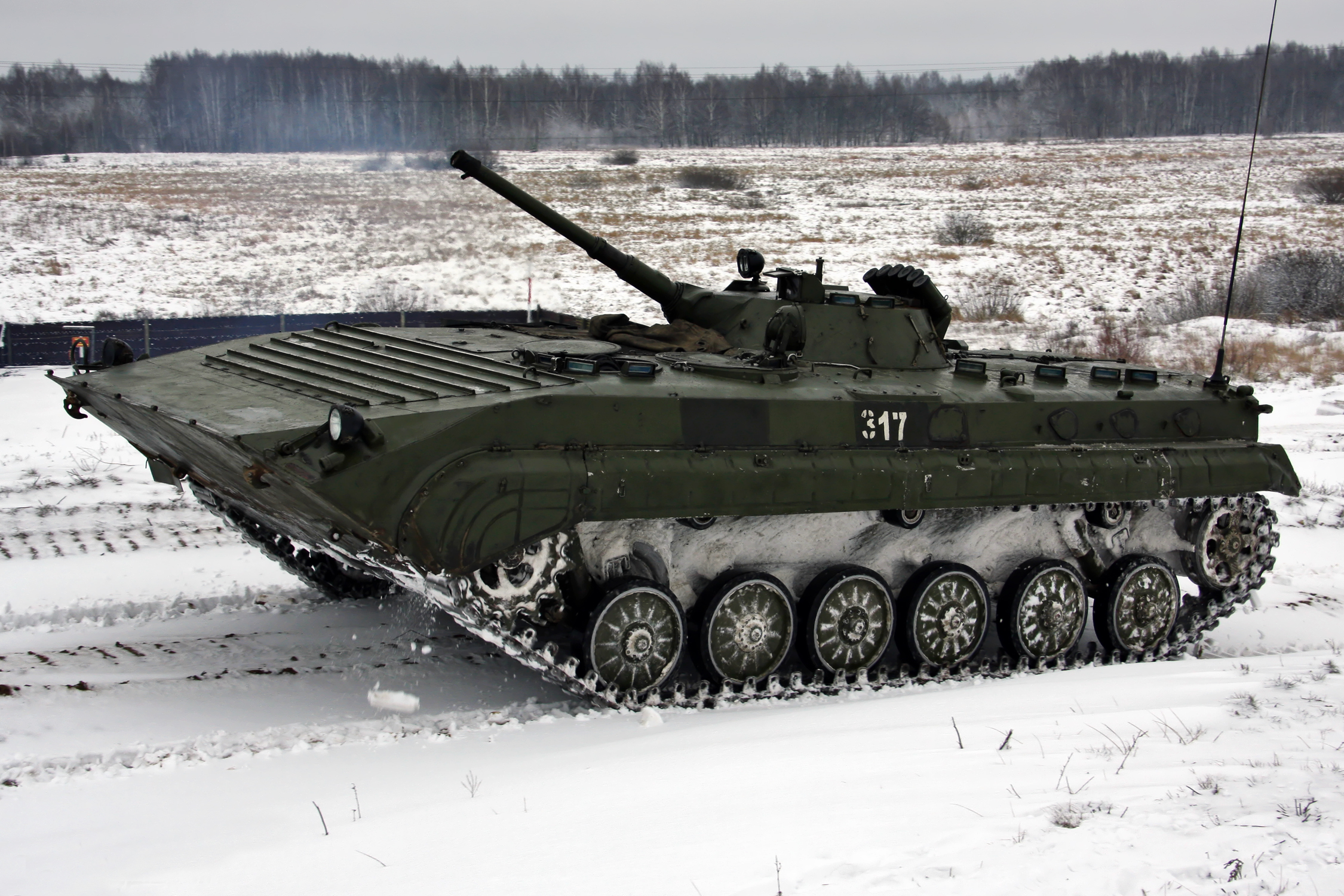 Drivers use BMP-1 for the training, because it has the same driving control as BMP-2, gunners use BMP-2 and BMP-3 for the training